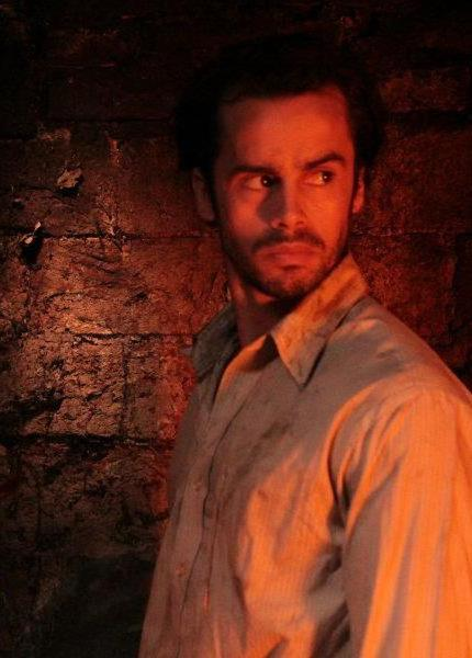 “Malacara”